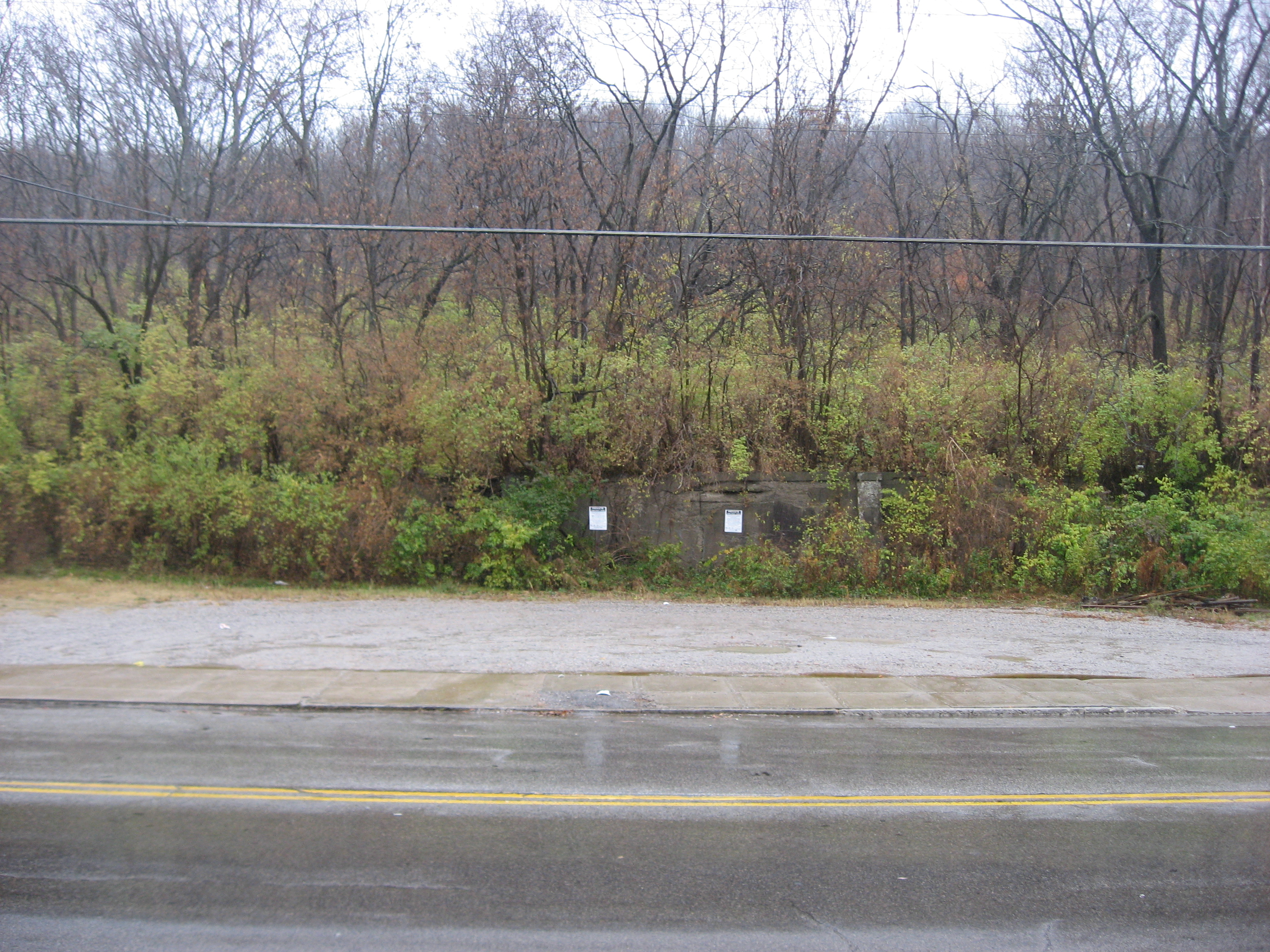 An empty lot at 4026 Eastern Avenue in the Columbia-Tusculum neighborhood of Cincinnati, Ohio, United States. This lot was formerly the location of Clauder's Pharmacy; built in 1906, it is listed on the National Register of Historic Places despite having been destroyed.